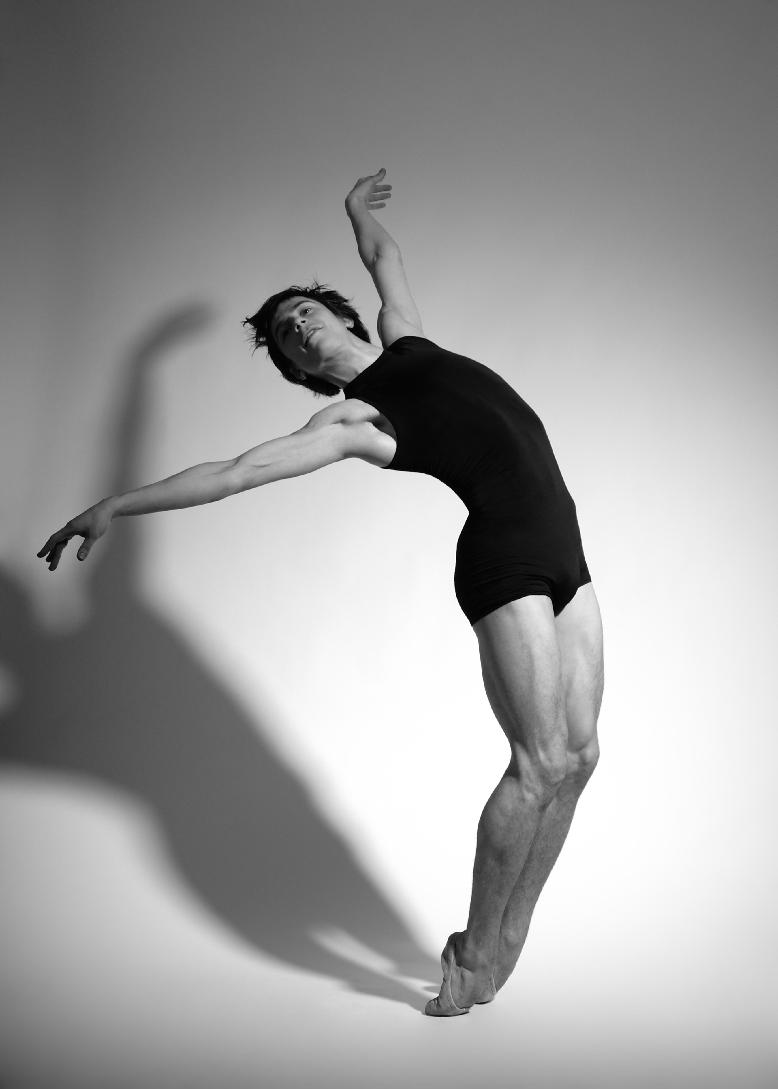 Aleksei Torgunakov - The ballet dancer of the Bolshoi theatre of Russia